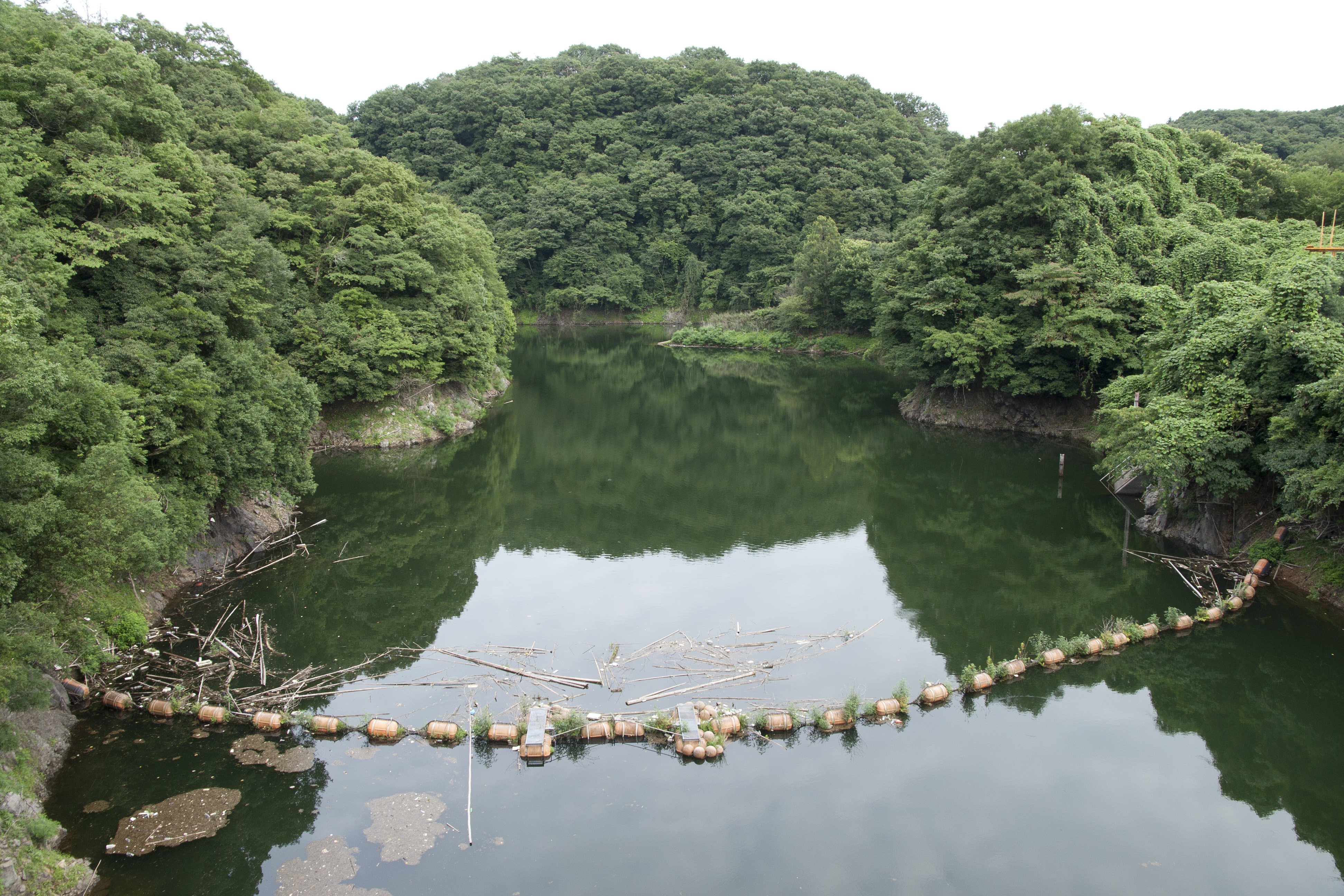 Fujiigawa Dam, Shirosato Town, Ibaraki Pref., Japan